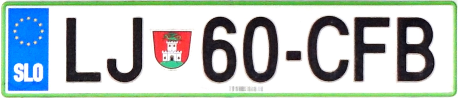 Slovenian license plate with the sticker of Ljubljana administrative unit. The sequence on it is of the 12-ABC form, which I have never noticed until the last few days, when I see it more and more often. It seems it is the sequence that the latest Slovenian number plates use.